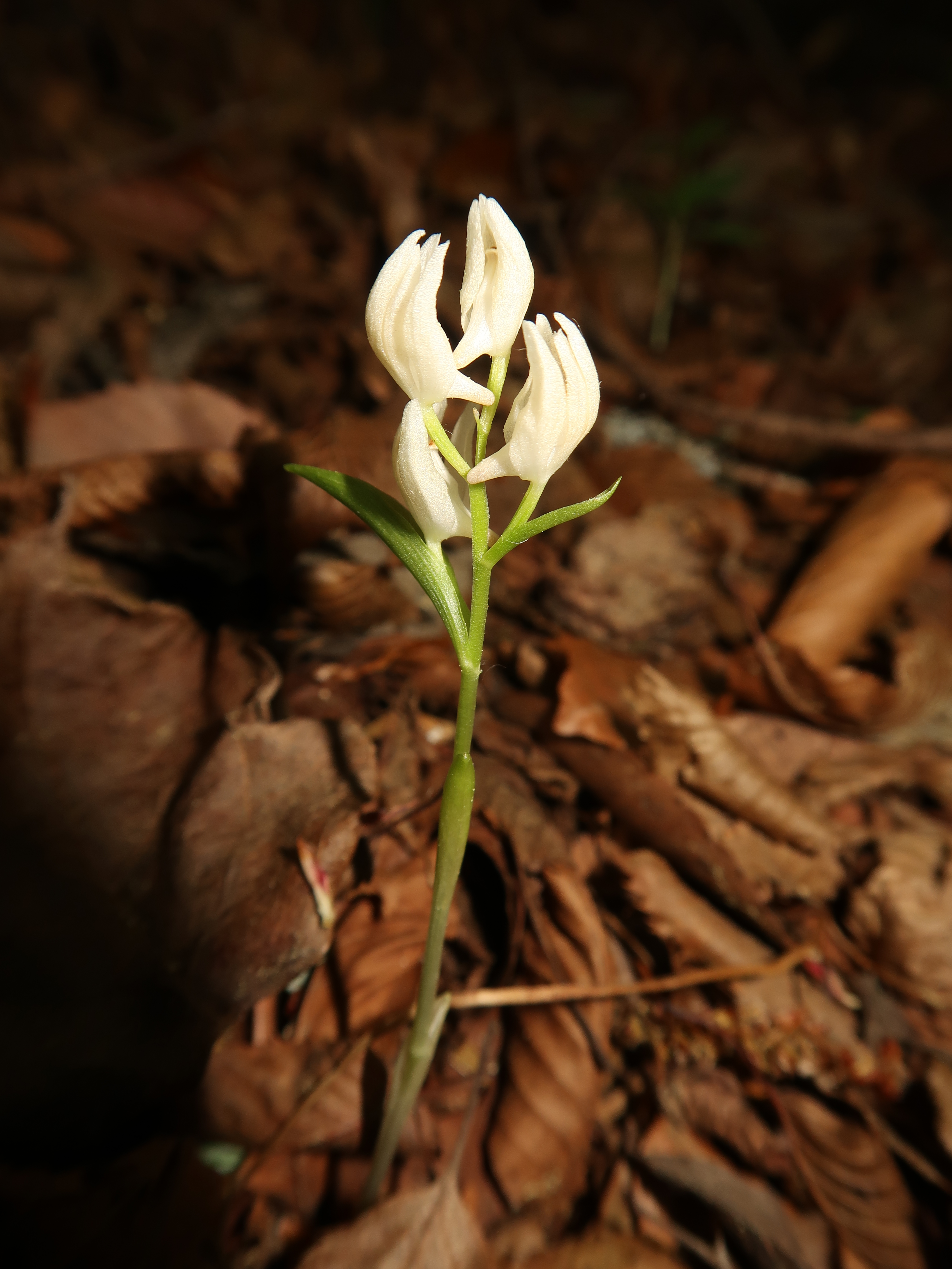 Cephalanthera subaphylla, north area, Tochigi pref., Japan